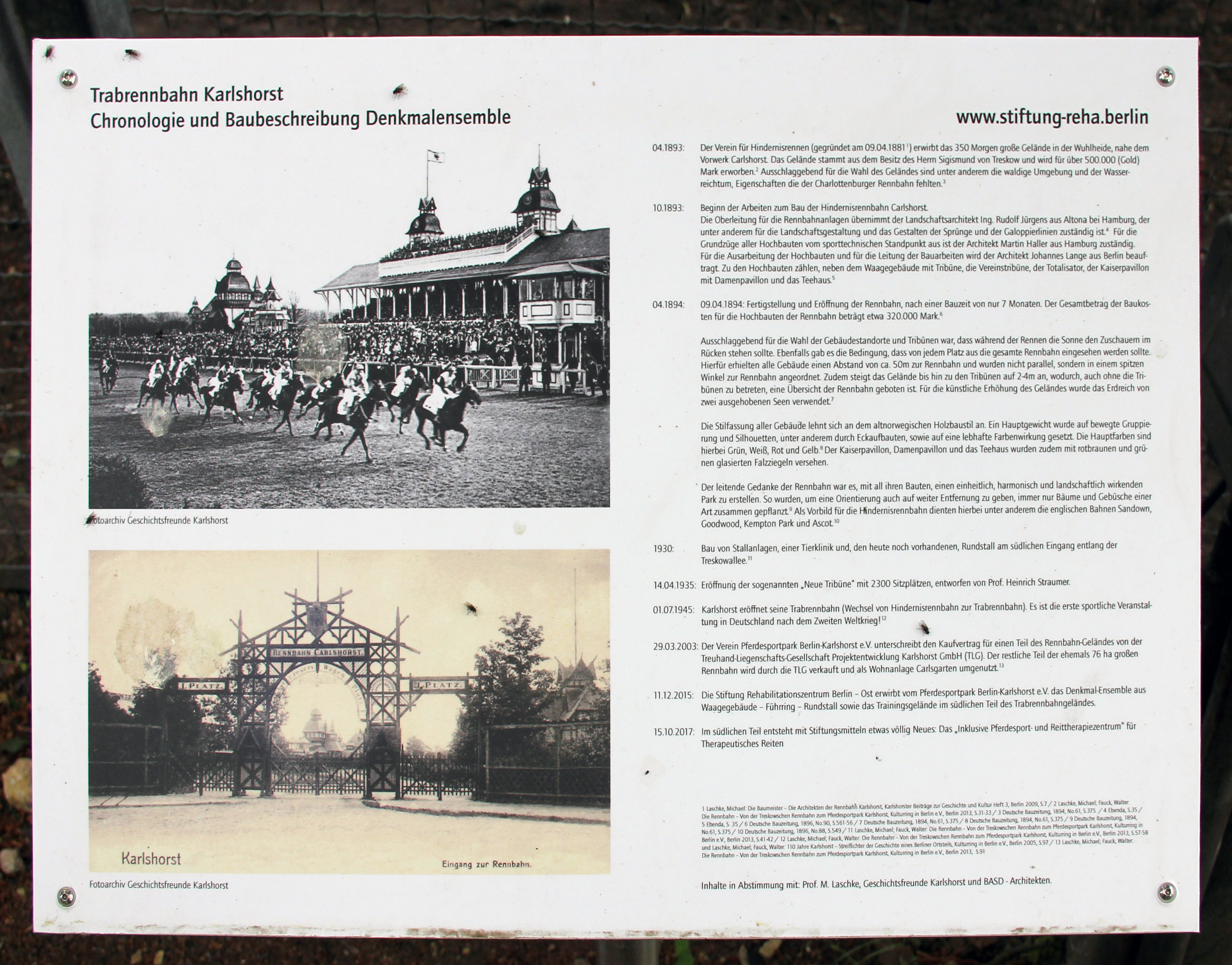 Memorial plaque, Trabrennbahn Karlshorst, Treskowallee 159, Berlin-Karlshorst, Deutschland